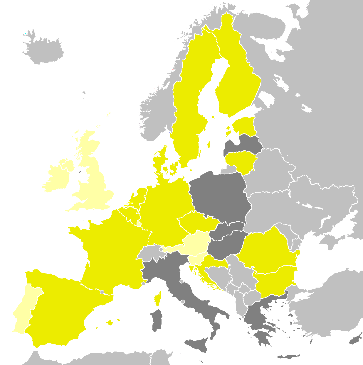 Alliance of Liberals and Democrats for Europe (ALDE) Group in the European Parliament, as of 01 Januari 2010. Yellow: EU countries with more than one ALDE MEP. Light yellow: EU countries with one ALDE MEP. Dark grey: EU countries without ALDE MEPs. Light grey: Non-EU countries.